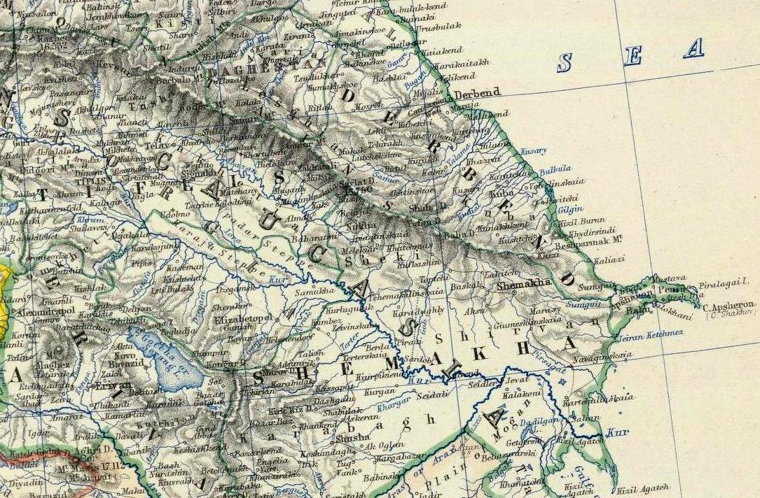 Turkey in Asia, Asia Minor, and Transcaucasia. By Keith Johnston, F.R.S.E. Engraved & printed by W. & A.K. Johnston, Edinburgh. William Blackwood & Sons, Edinburgh & London, (1861)